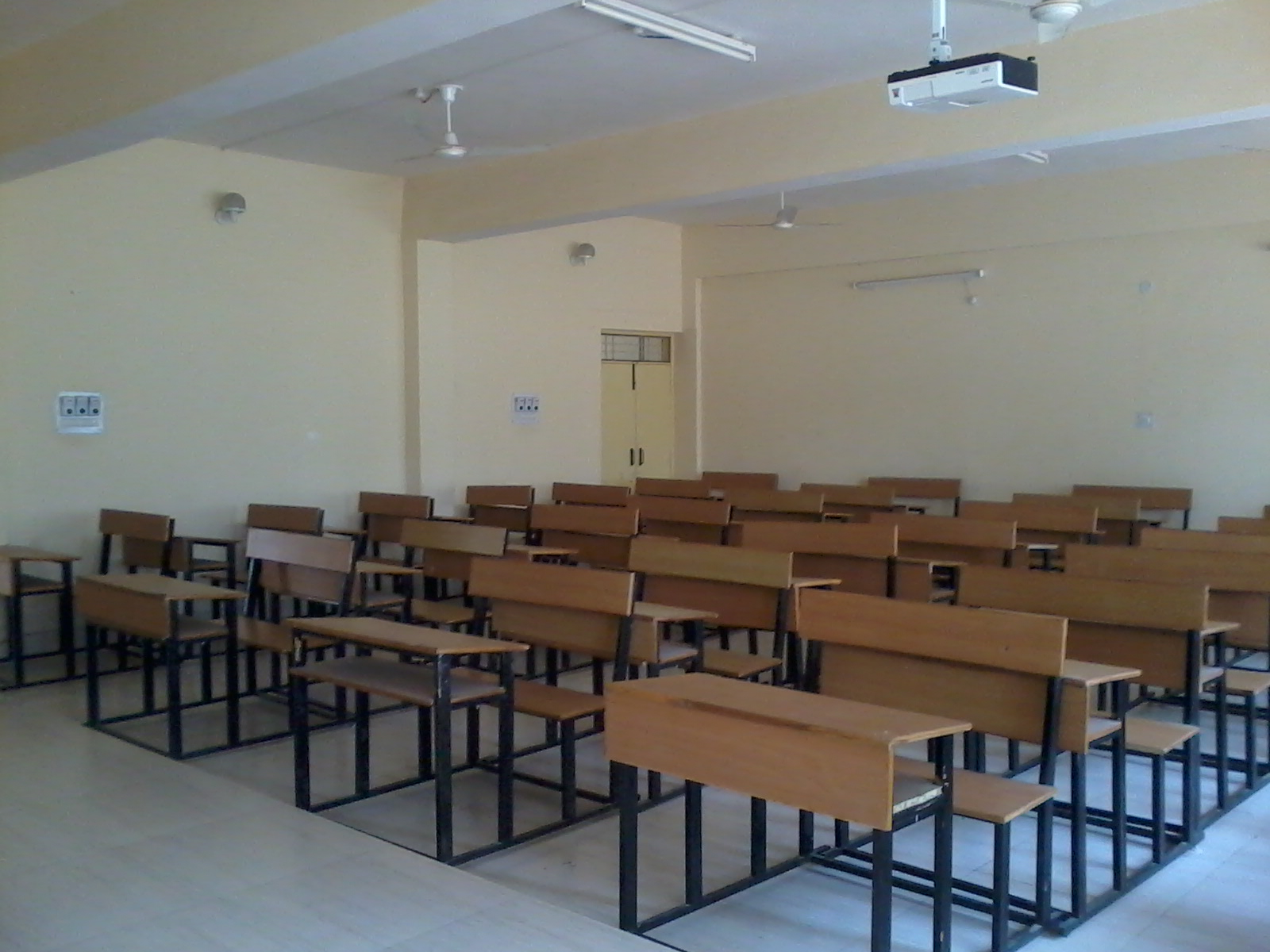 Lecture hall at the National Institute of Technology Uttarakhand, India.